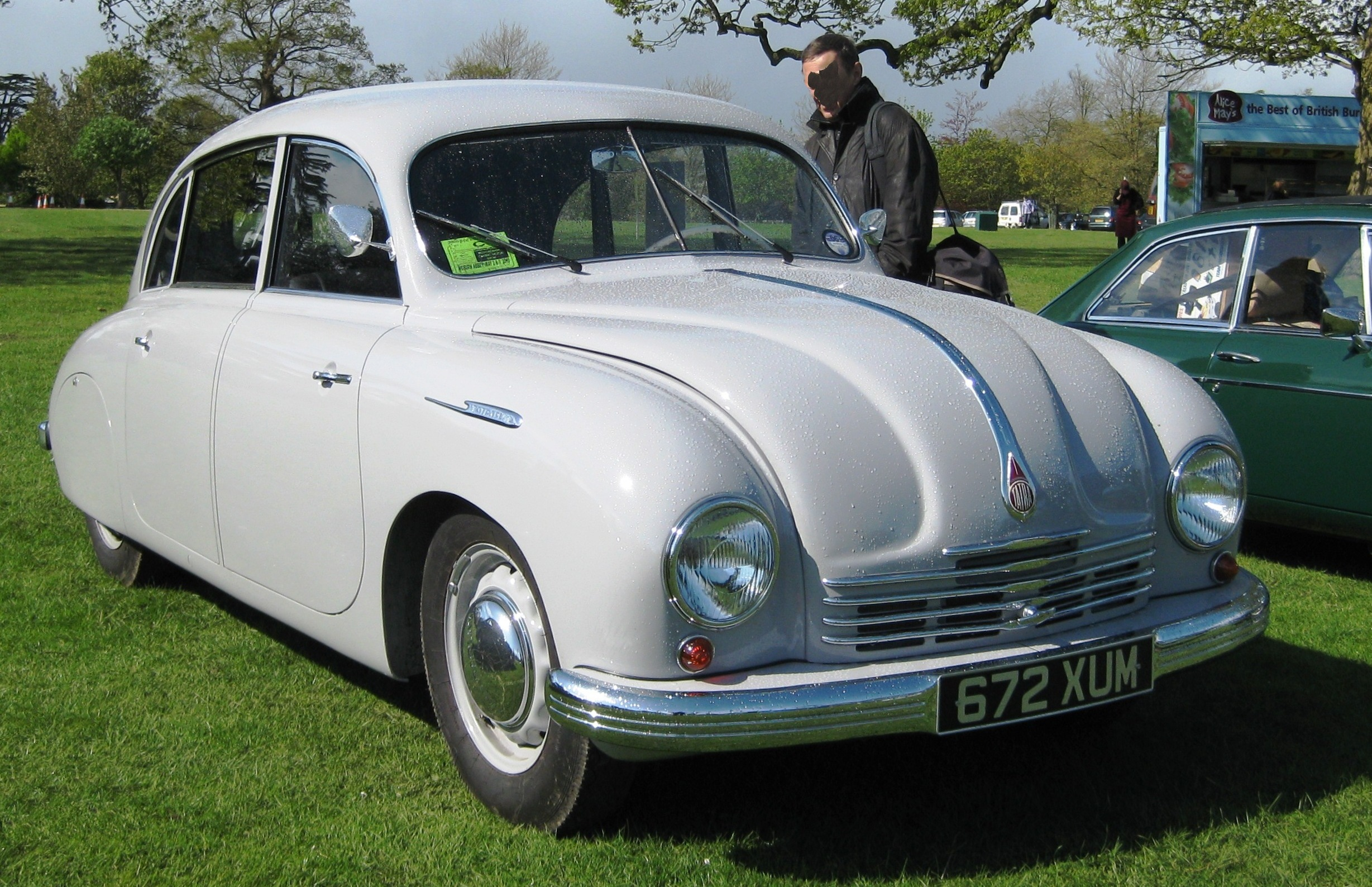 Tatraplan at classic car show in Bedfordshire